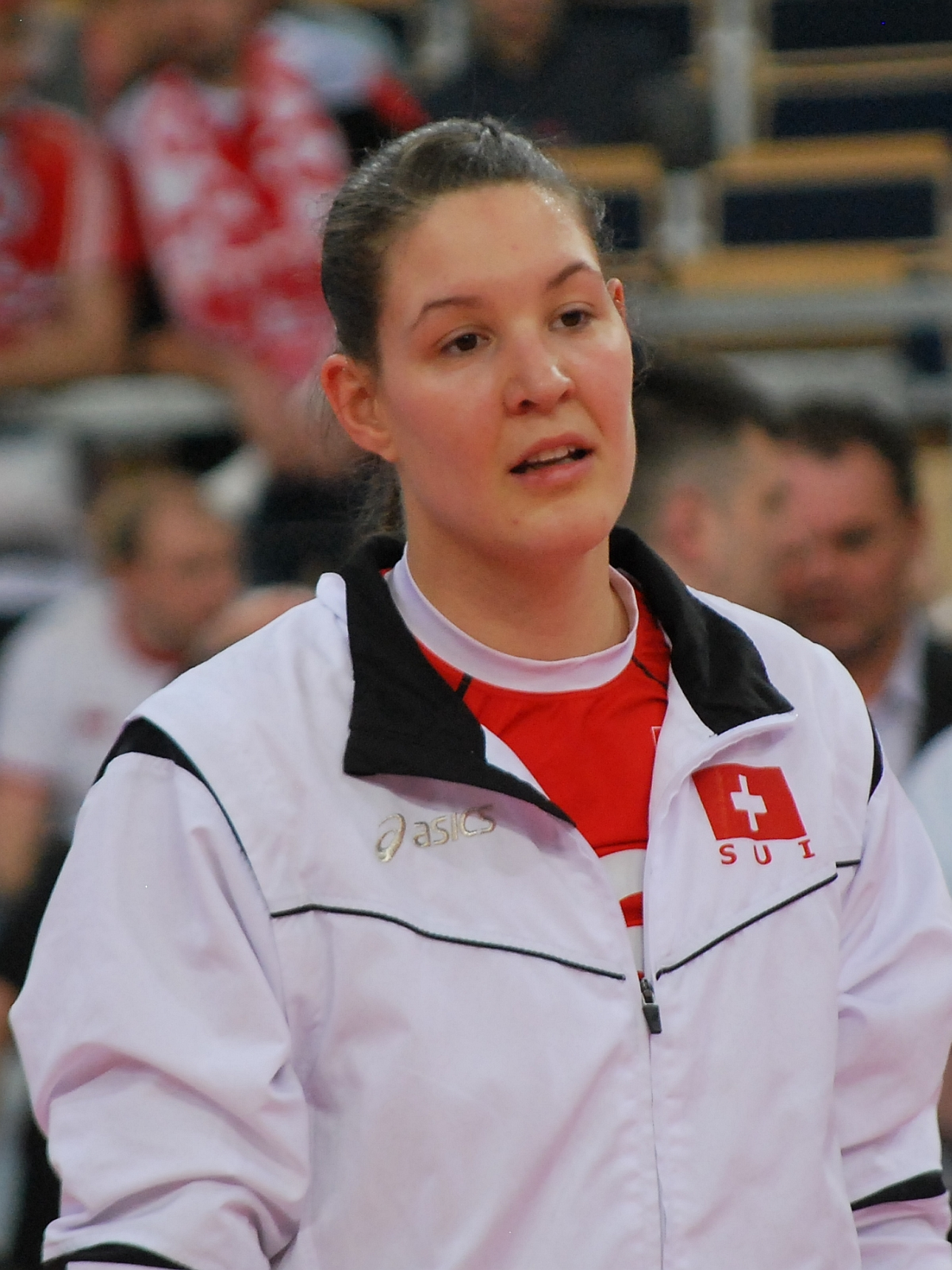 FIVB World Championship European Qualification Women Łódź January 2014. Patricia Schauss- volleyball player from Switzerland